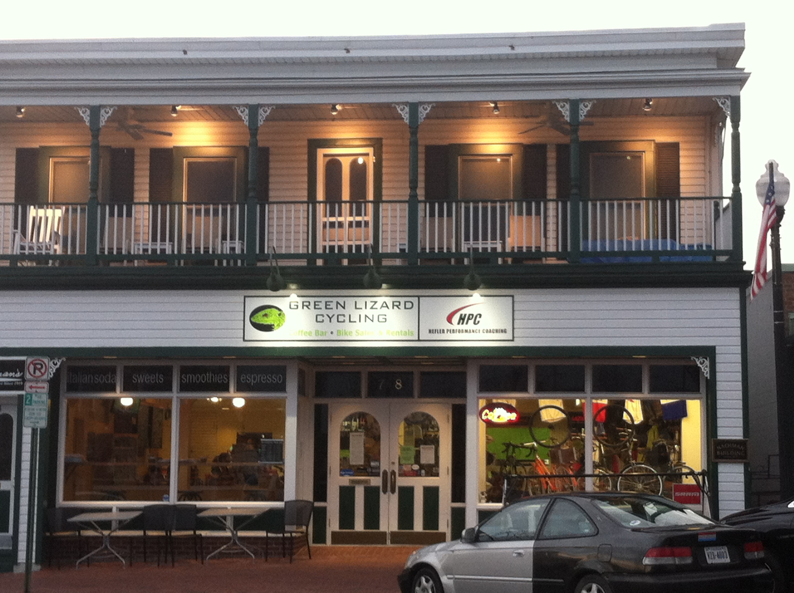 Green Lizard Cycling, Herndon Virginia